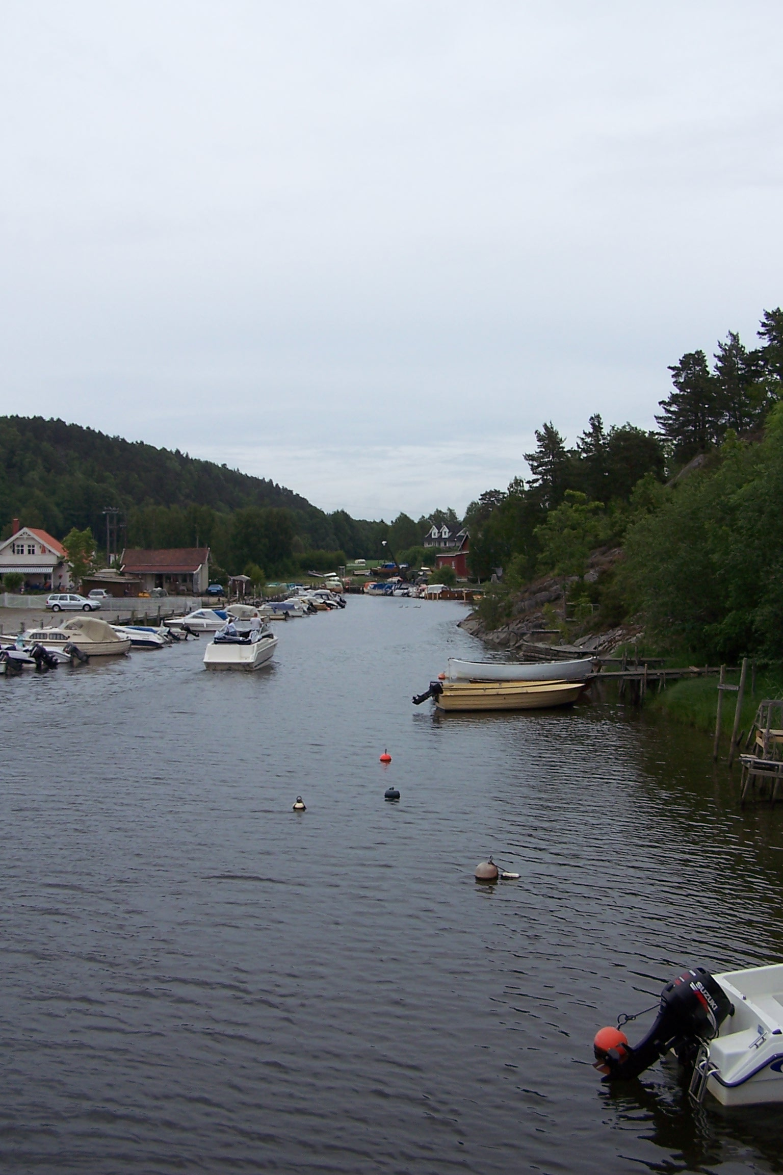 Son, Norway: River Såna as it reaches Son